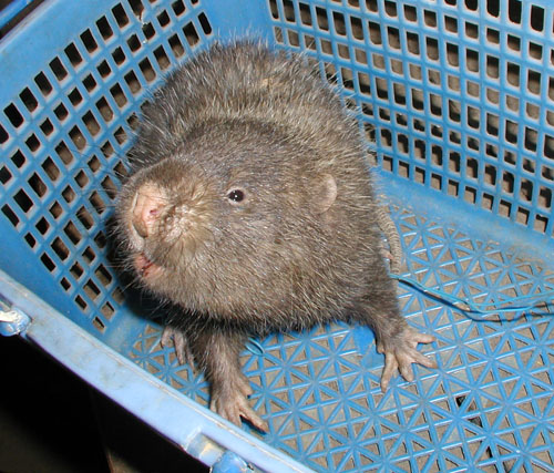 Lesser bamboo rat (Cannomys badius) at a market in Phongsali, northern Laos